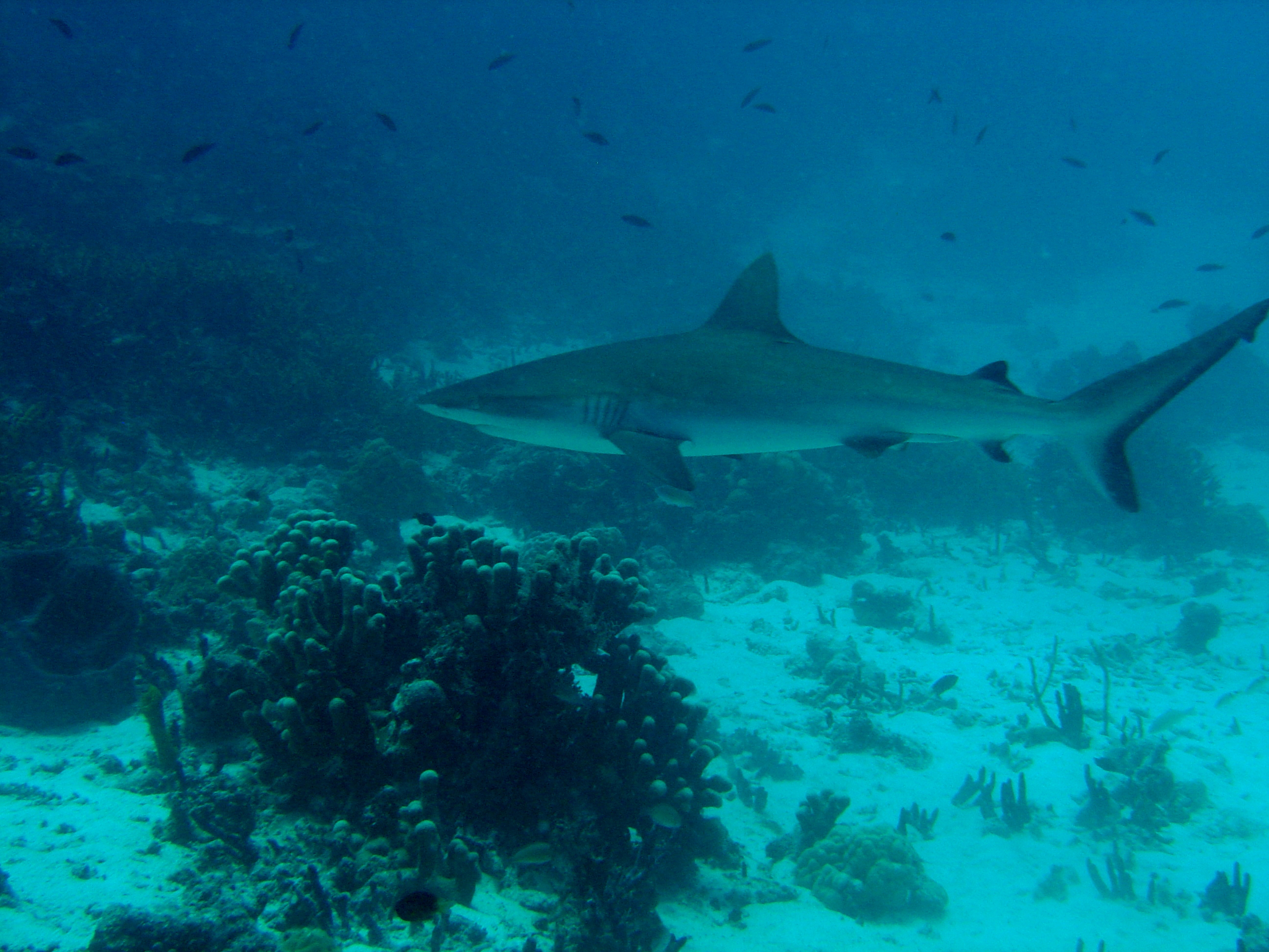 Grey reef shark (Carcharhinus amblyrhynchos) off Chuuk, Federated States of Micronesia